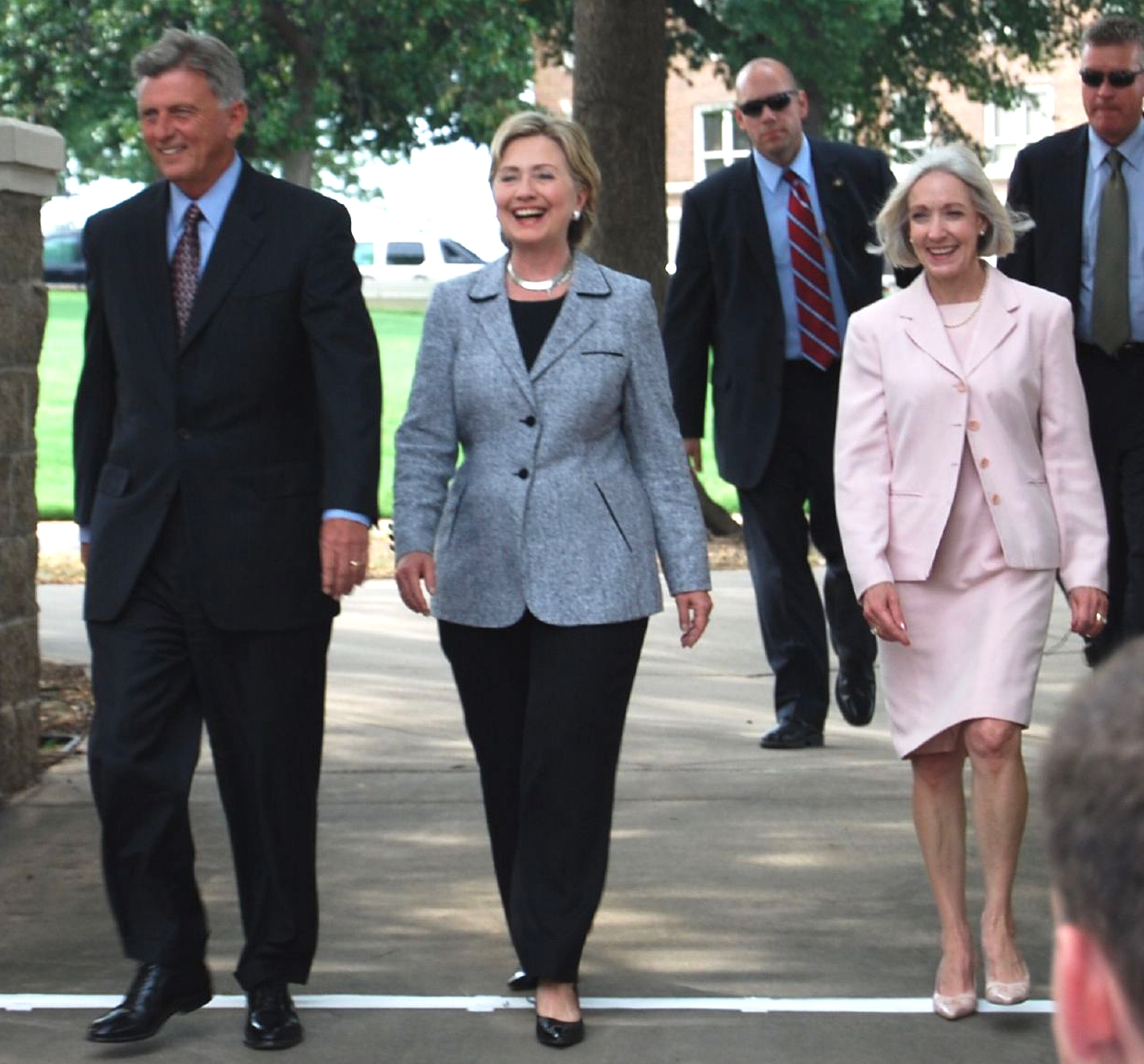 Presidential Candidate Hillary Clinton (center) stopped by Little Rock to get the endorsement of Governor Mike Beebe. Presidential Candidate Hillary Clinton stopped by Little Rock to get the endorsement of Governor Mike Beebe.